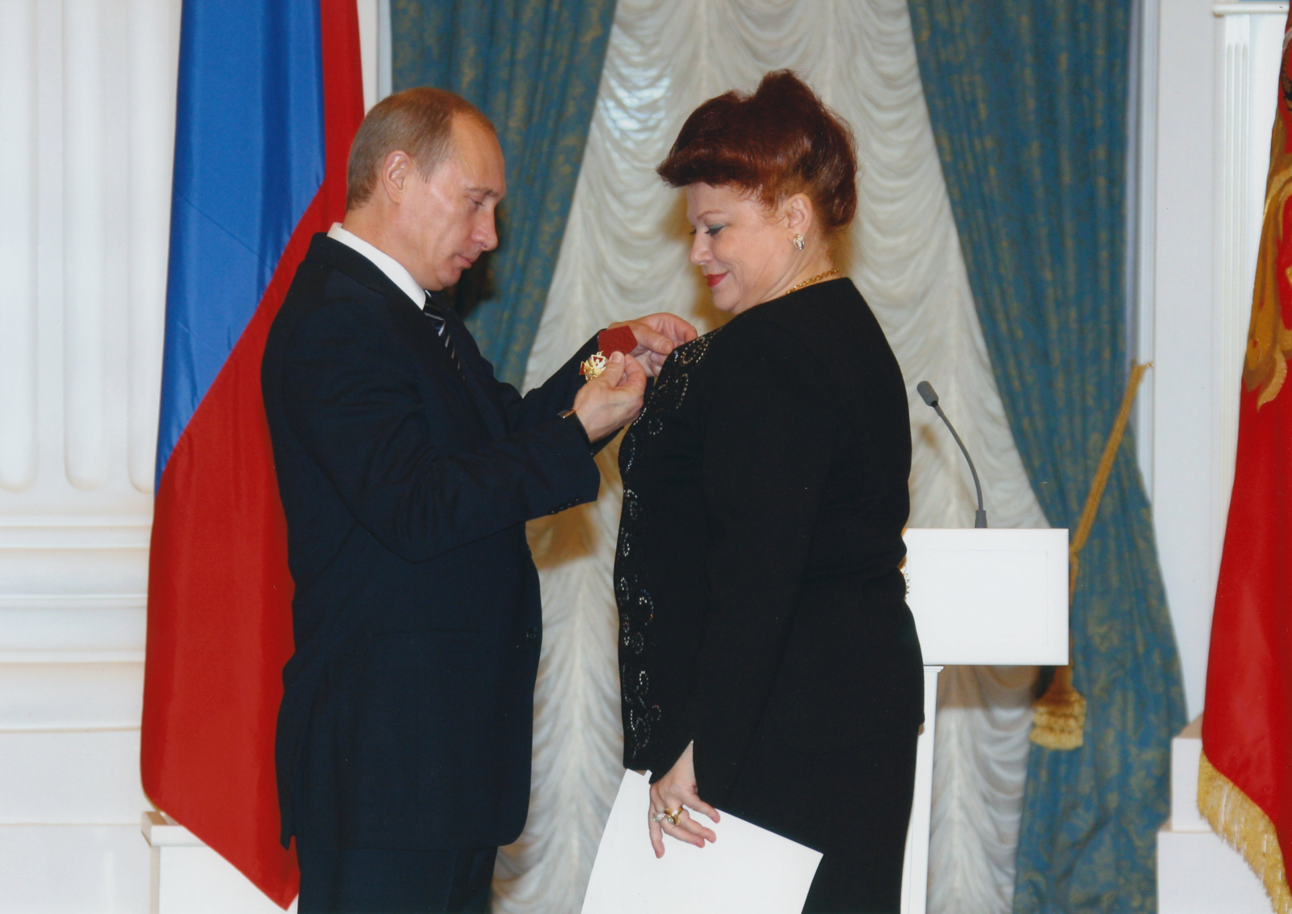 L.Rumina and V.Putin